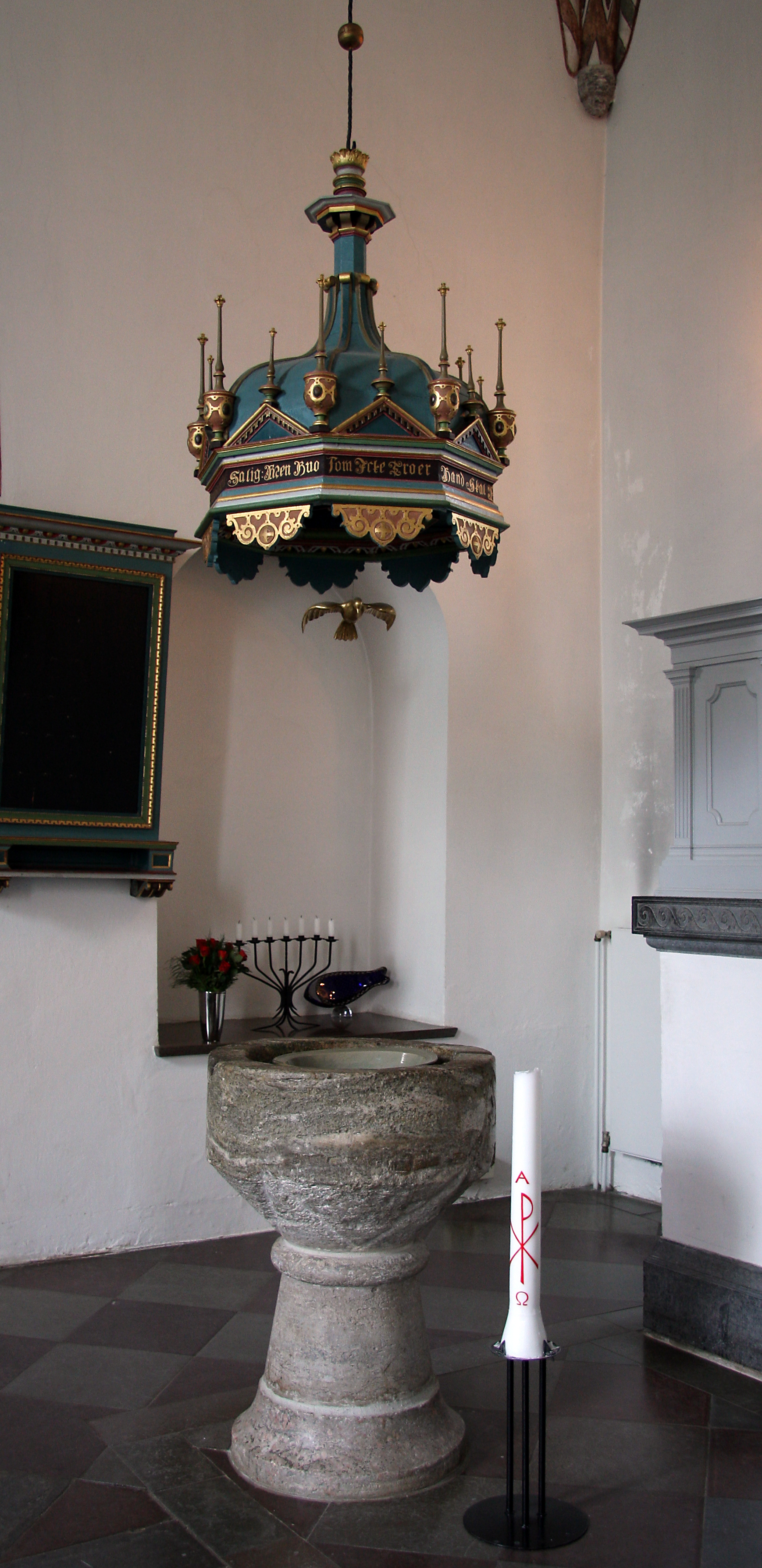 Baptismal font in Sankta Maria kyrka in Åhus, Sweden.